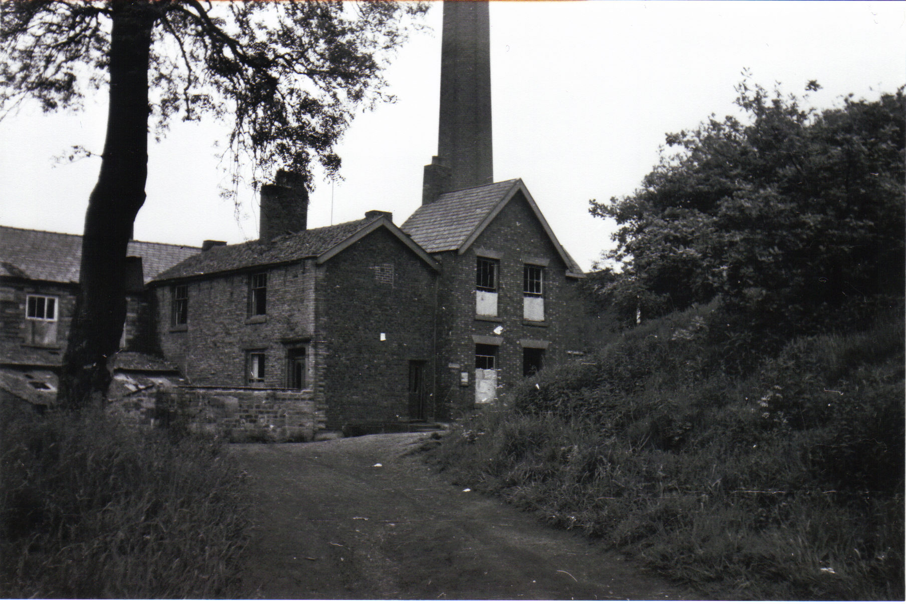 Wood Mill by the River Tame in Stockport, Cheshire, just before its demolition in 1964.